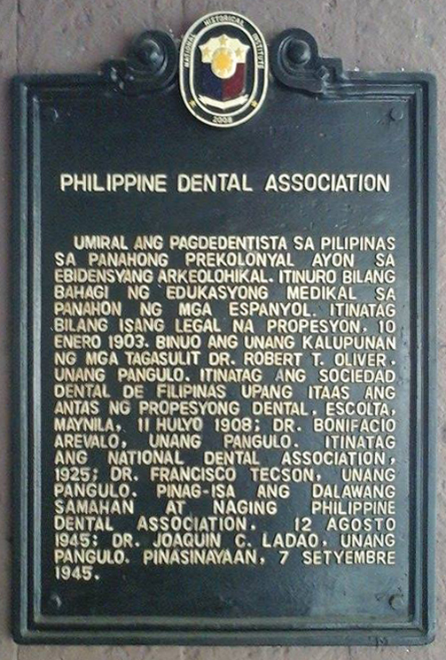 PDA marker, Makati